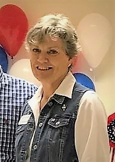 Ethan McBride and Col. Kim Olson at a town hall event in Nacogdoches Texas